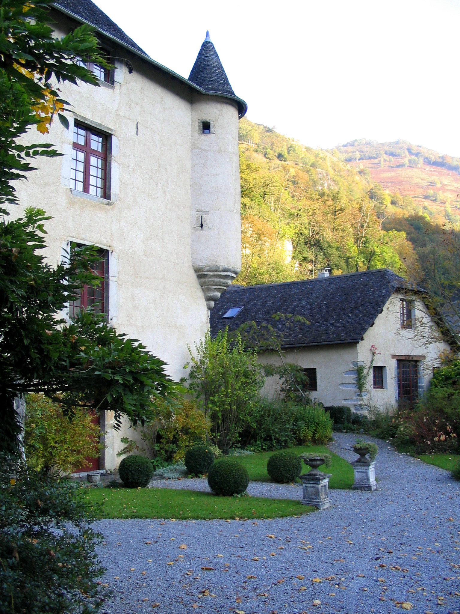 Castle in the village of Béon in the French Pyrenees